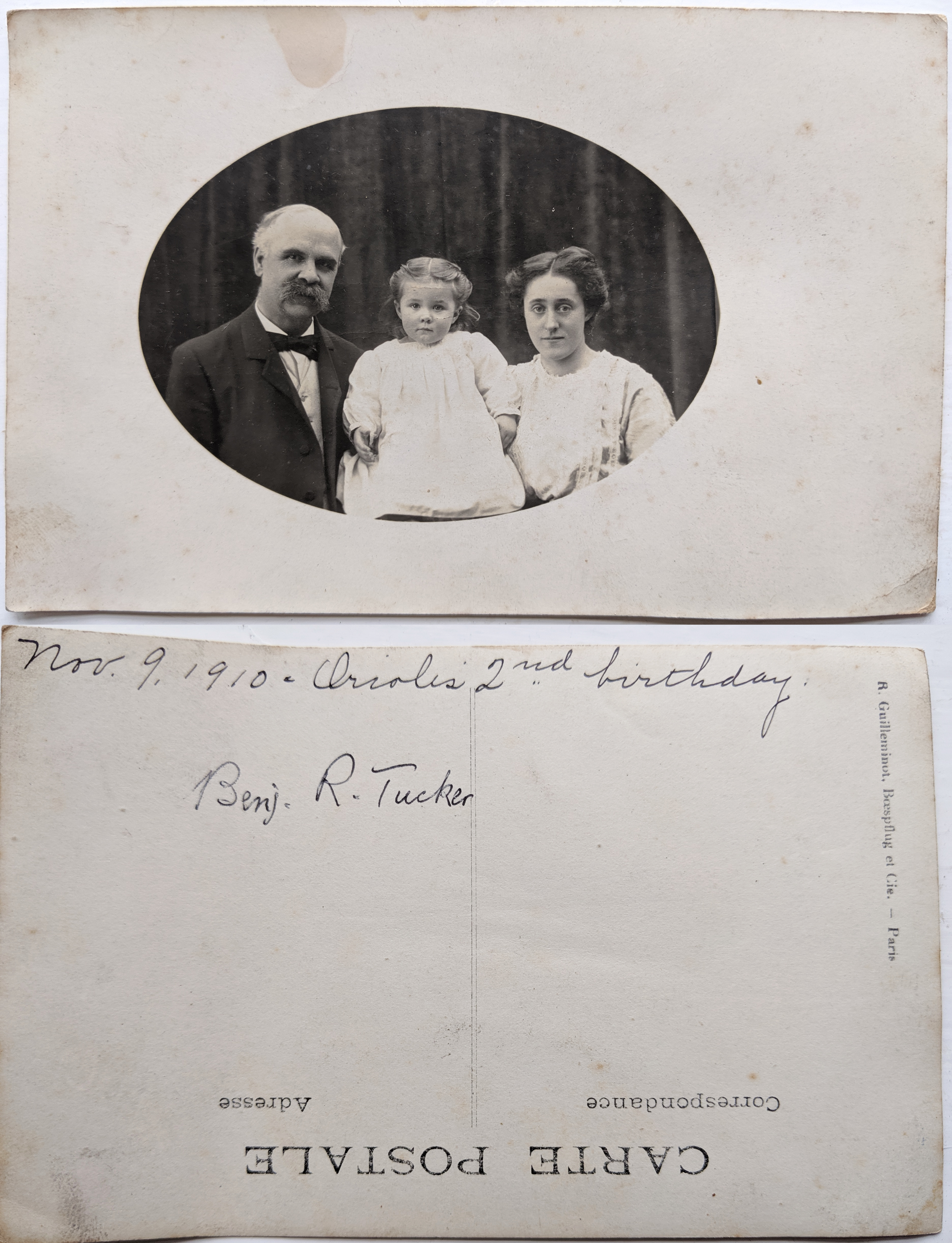 The postcard of Tucker's family was posted to Henry Meulen